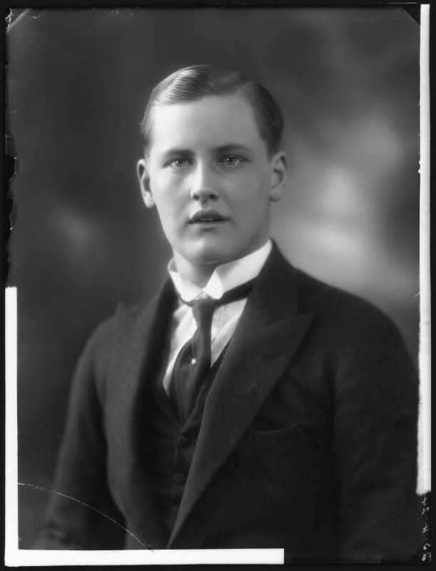 William Lygon, 8th Earl Beauchamp by Bassano Ltd whole-plate glass negative, 25 April 1924 Given by Bassano & Vandyk Studios, 1974 Photographs Collection NPG x37100